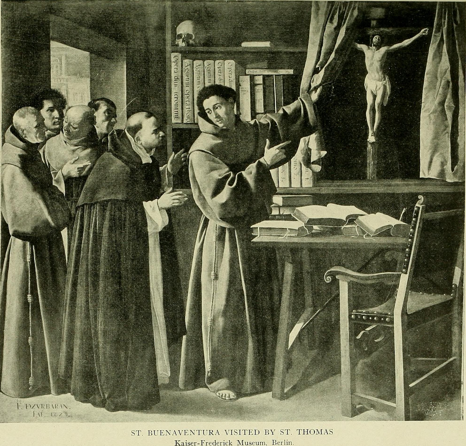 Title: Francisco de Zurbaran; his epoch, his life and his works Year: 1918 (1910s) Authors: Cascales y Muñoz, José, 1865- Evans, Nellie Seelye, "Mrs. Dudley Evans," tr Subjects: Zurbarán, Francisco, 1598-1664 Publisher: New York, Priv. print Text Appearing Before Image: THE CHILD JESUS INJURED BY THE THORXSCollection of D. Cayetano Sanchez Pineda, Seville. Text Appearing After Image: should not have been known, such as the Apotheosis ofSt. Thomas, signed and dated 1631. That of 1616would show, if it were false, a bold effrontery on the partof the author of the forgery, since the picture is not inthe characteristic style of Zurbarán, and at first glanceone could always suspect the handwriting which corre-sponds in sharpness and fluency to the period of PhilipIII. Finally, it is not wholly improbable that Zurbaránshould have painted the work ordered by Sr. Ceperoseven years before the pictures of the Marquis of Mala-gón. The unusual part of it is that there are no records ofthe other works which he undoubtedly executed after thecompletion of this Immaculate Conception and a preciousChild Virgin owned by D. Aureliano de Beruete, andabout the time that he engaged to paint nine new andgrand compositions taken from the life of St. Peter whichthe same Marquis of Malagón had ordered for the highaltar of the Apostle in the Sevillian cathedral, calledfinished in 1625, w